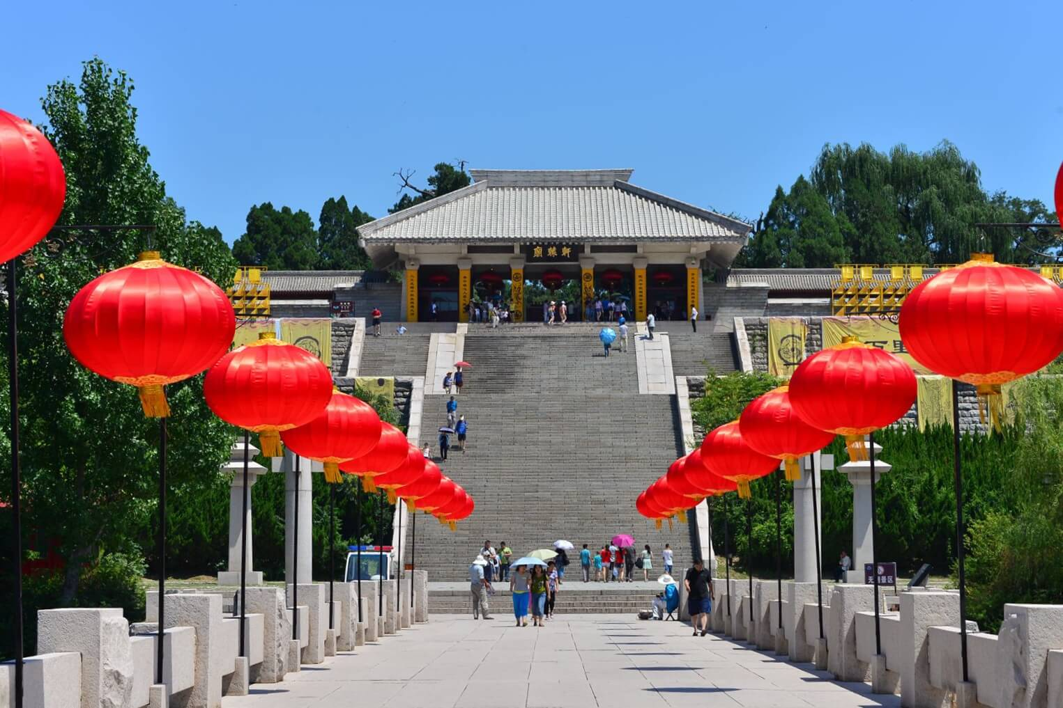 Xuanyuan Temple (轩辕庙) in Huangling, Yan'an, Shaanxi. The temple is dedicated to the worship of Xuanyuan shi 轩辕氏, Huangdi 黄帝, the "Yellow Deity".